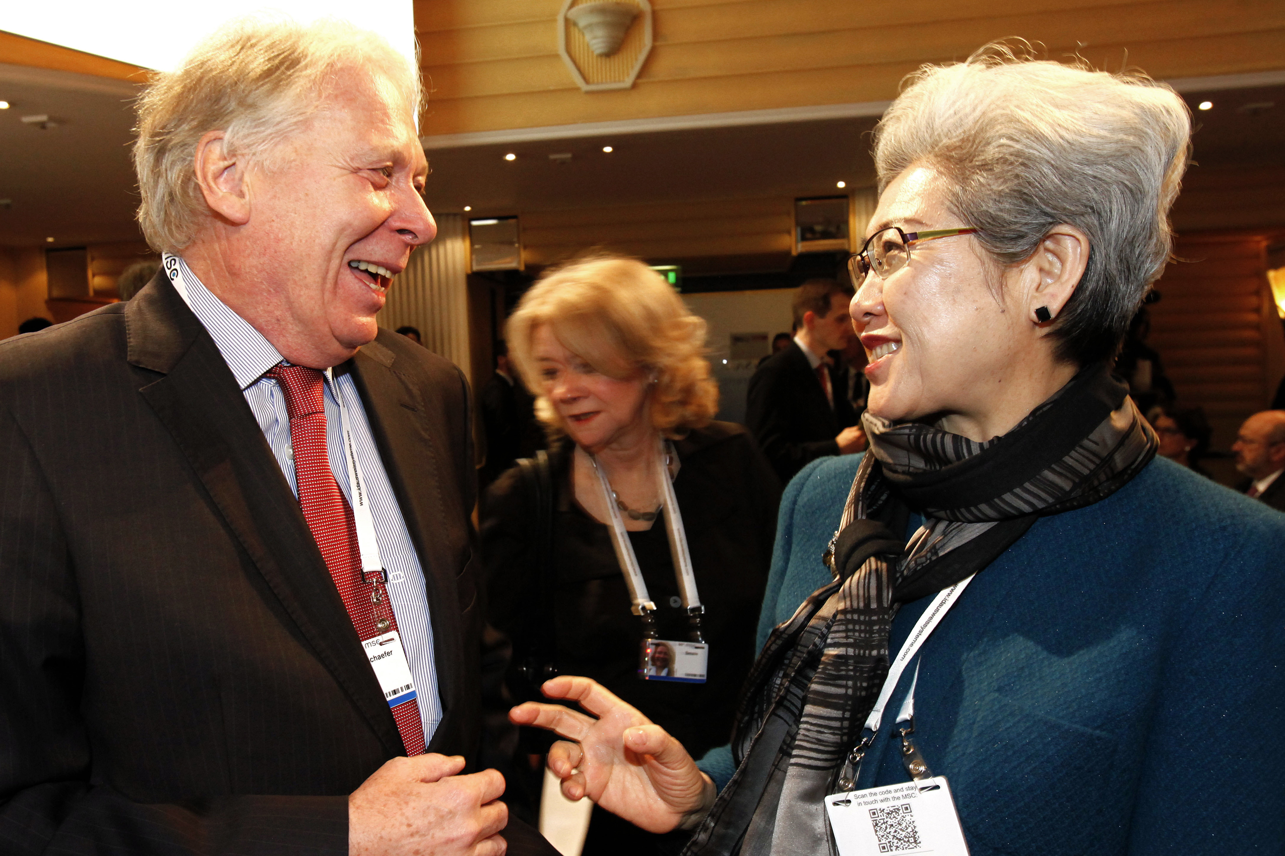 50th Munich Security Conference 2014: Michael Schaefer and Fu Ying: Michael Schaefer (Chairman of the Board, BMW Foundation Herbert Quandt) and Fu Ying (Chairwoman of the Foreign Affairs Committee of the National People's Congress, People's Republic of China).